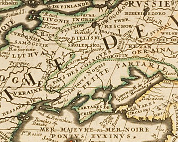 European part of "L'Asie selon les memoires les plus nouveaux dressée"